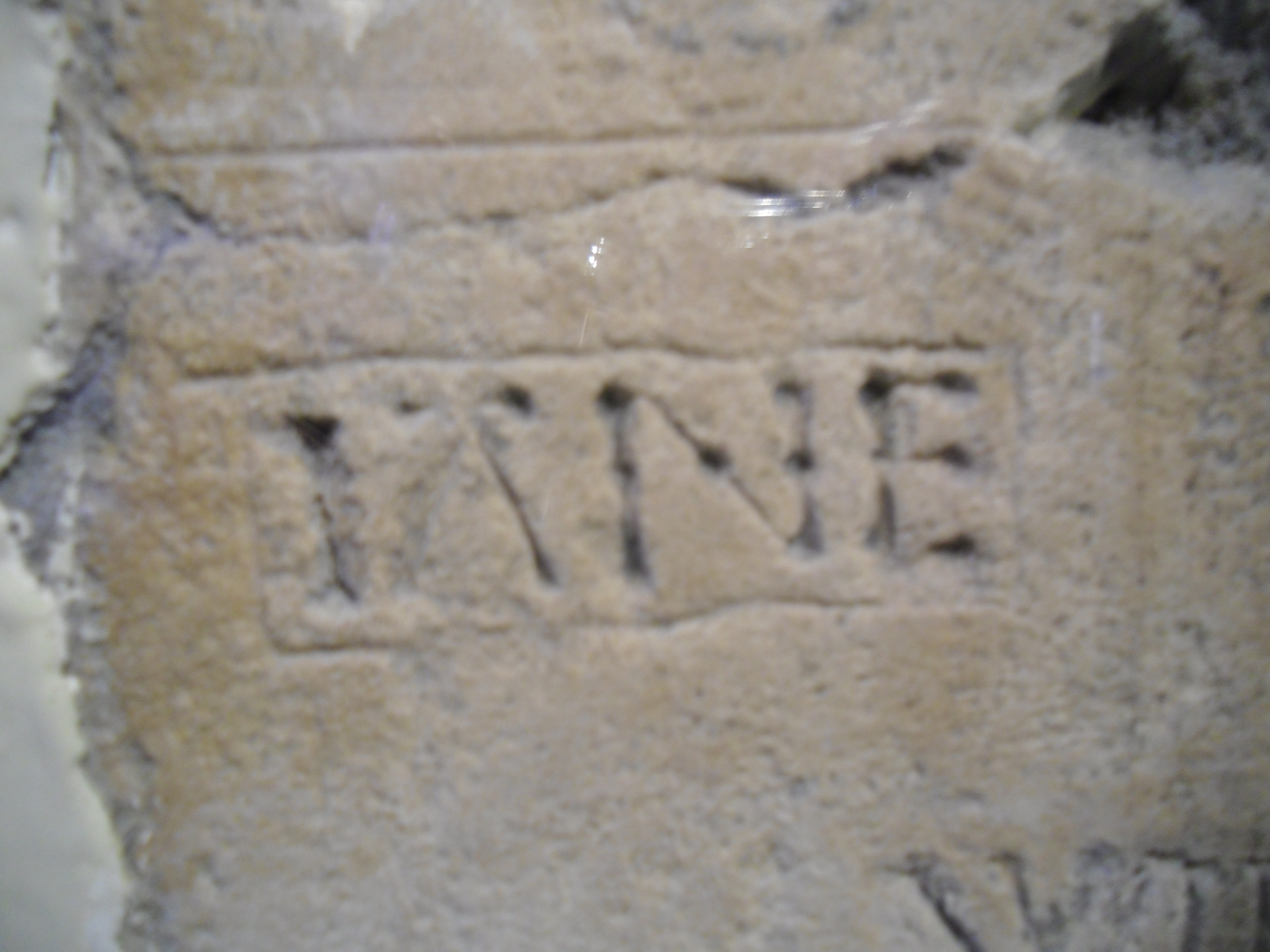 Carving of Jane Grey's name in the Beauchamp Tower of the Tower of London, probably done by the Dudley brothers.